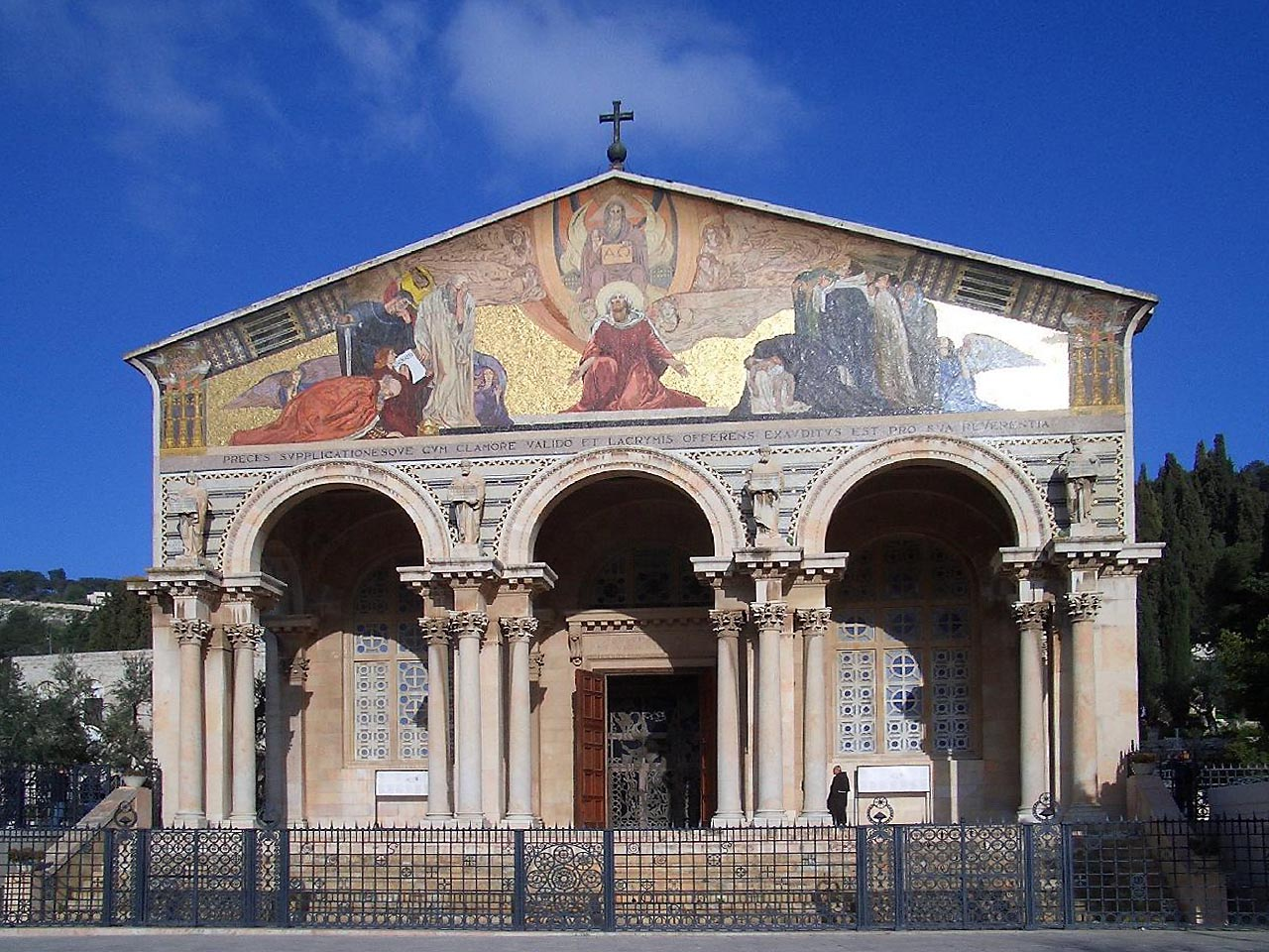 Frontal view of the Church of all Nations in Jerusalem's Gethsemane